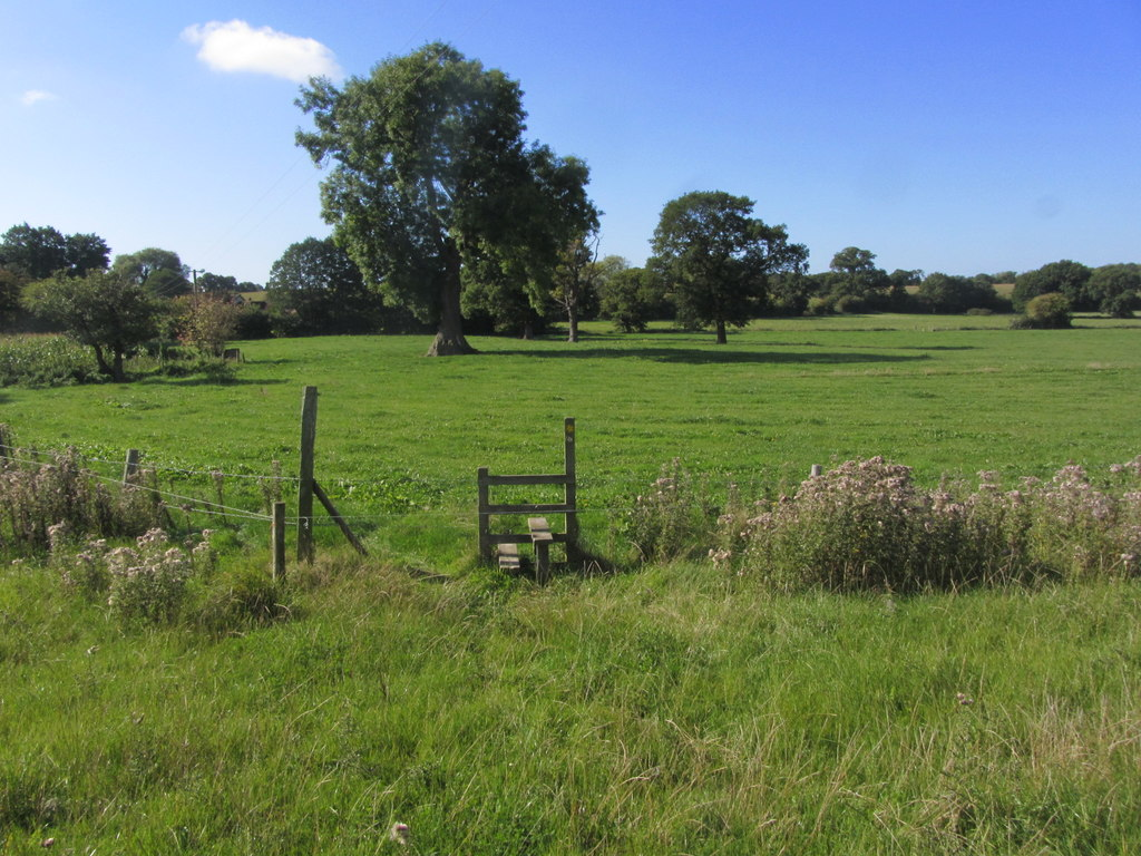 Stile on the South Cheshire Way, north east of Bearcat Fields farm, Hatherton, Cheshire, near the boundary with Hunsterson